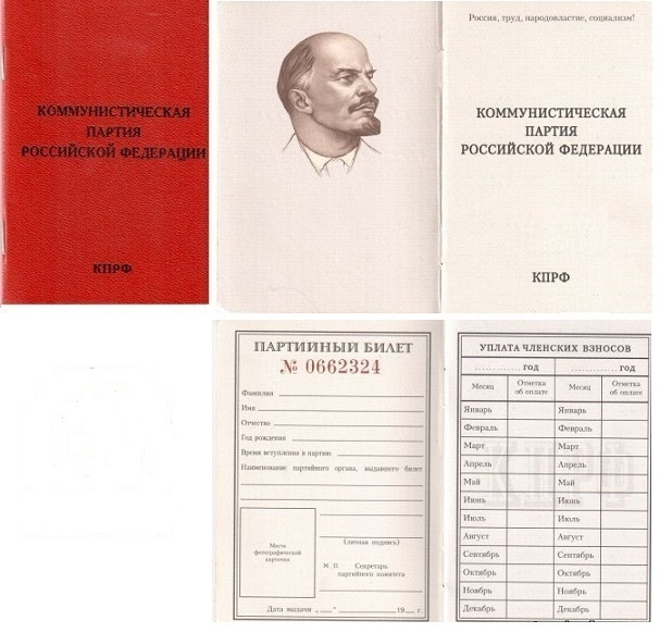 Member's of the Communist Party of the Russian Federation party card (personal data deleted)